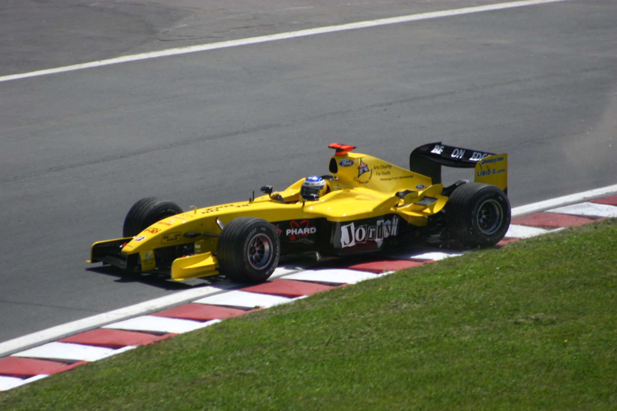 Nick Heidfeld driving for Jordan Grand Prix at the 2004 Canadian Grand Prix